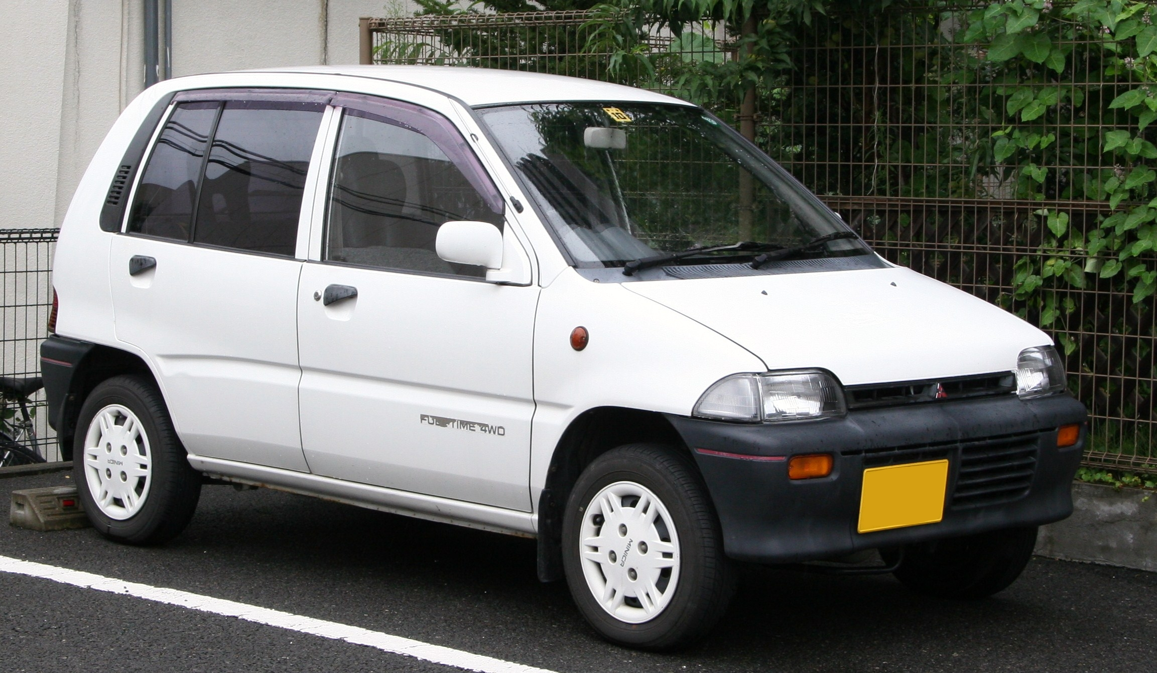 1990-1993 Mitsubishi Minica XF-4 (H27A)